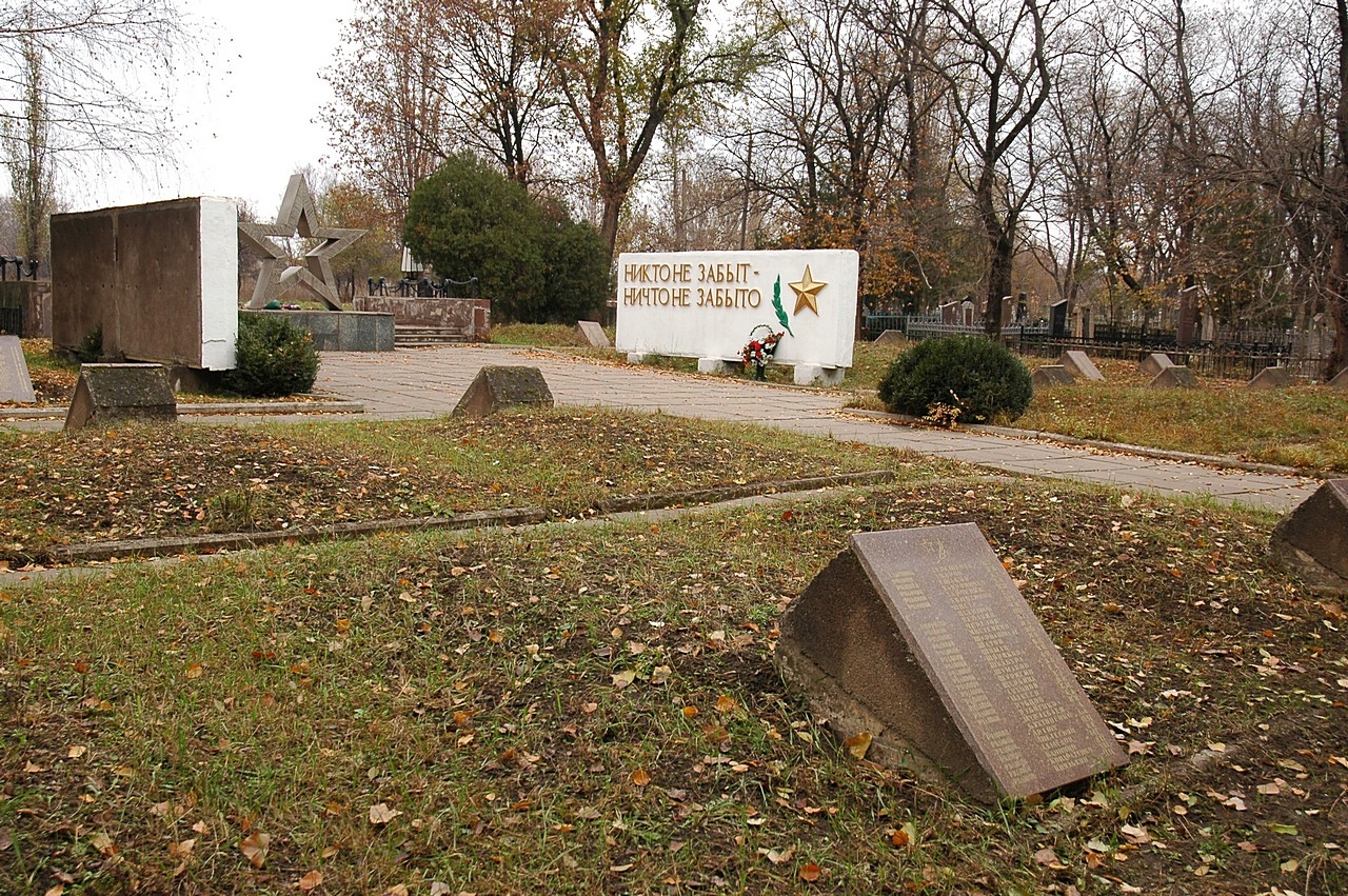 The military station, which buried - 1947 soldiers